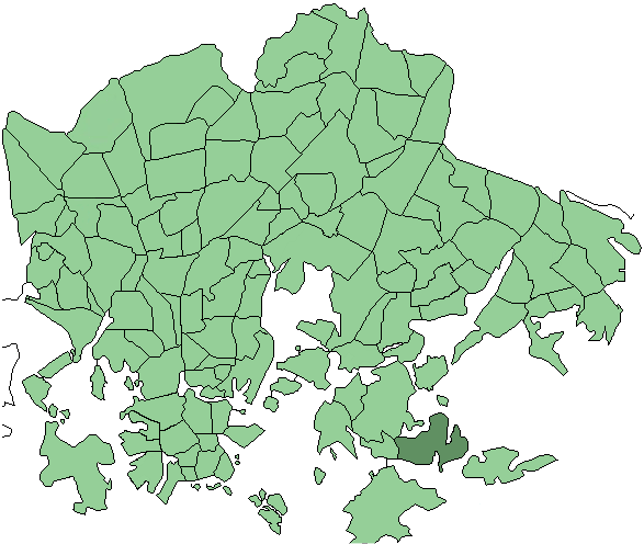 Districts of Helsinki, Jollas highlighted